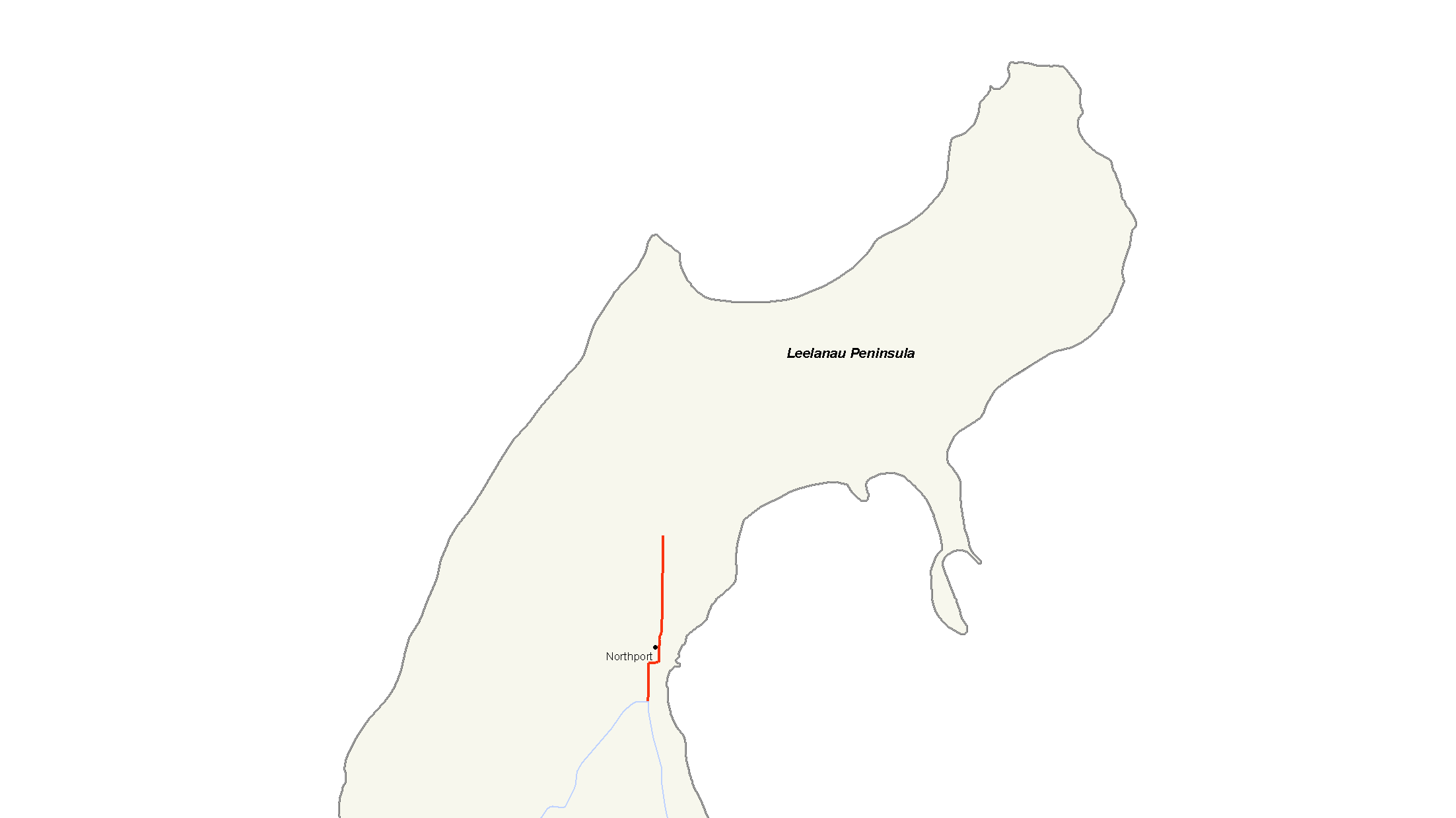 Map of M-201